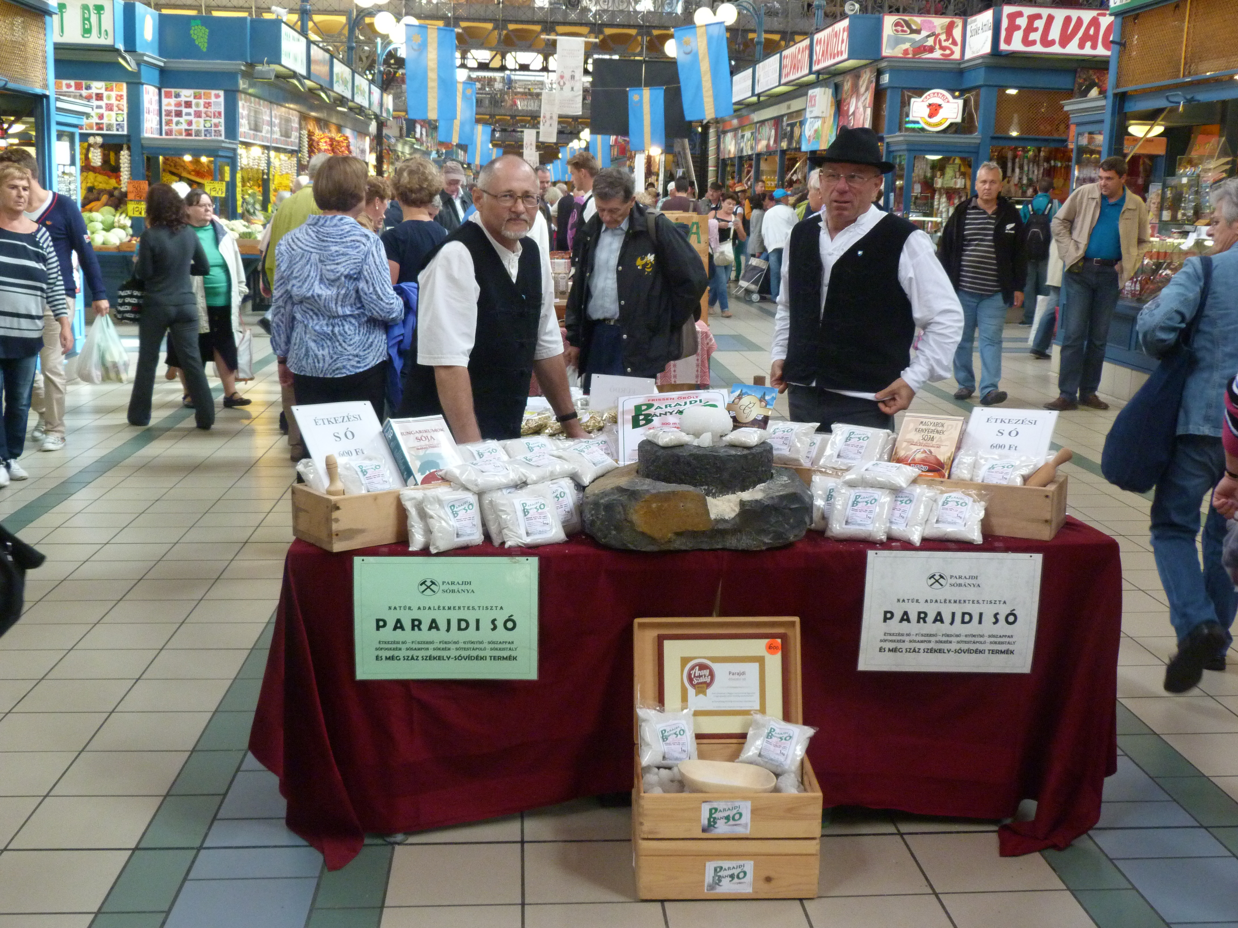 Live on the 12th of September, 2014. Budapest, Great Market Hall. Székely Land in the Great Market Hall. Goods of Székely Land. Legends of Székely Land. Map of Székely Land. ©© Derzsi Elekes Andor, Budapest 2014, You are authorised to use these photos and vids under Creative Commons – even for commercial, for profit purposes. Photos must be attributed to Derzsi Elekes Andor. All of the photos and vids in the Metapolisz DVD line are under Creative Commons and can be used even for commercial – for profit – purposes. Recommended Citation Derzsi Elekes Andor: Metapolisz DVD line